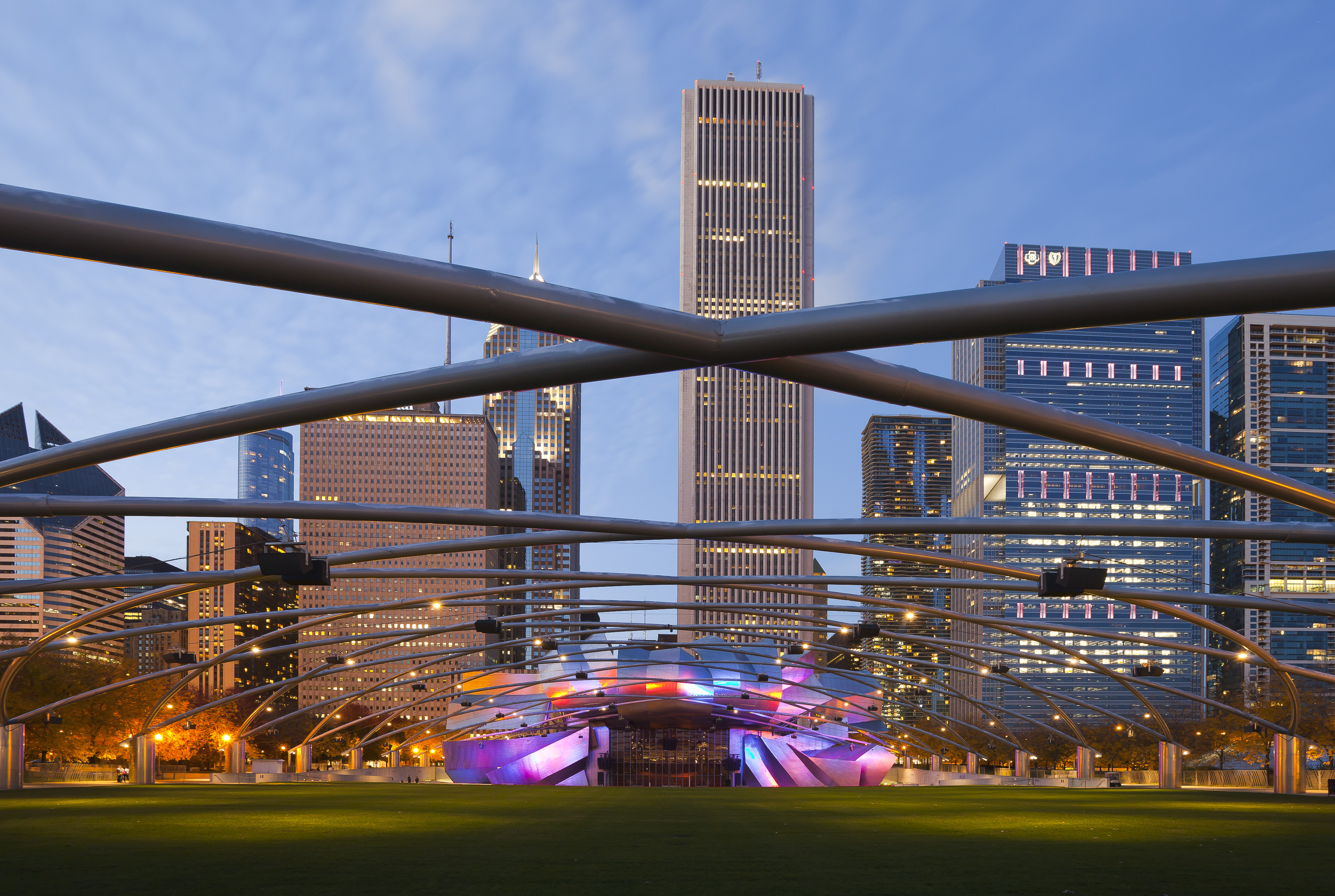 Jay Pritzker Pavilion, Chicago, Illinois, USA